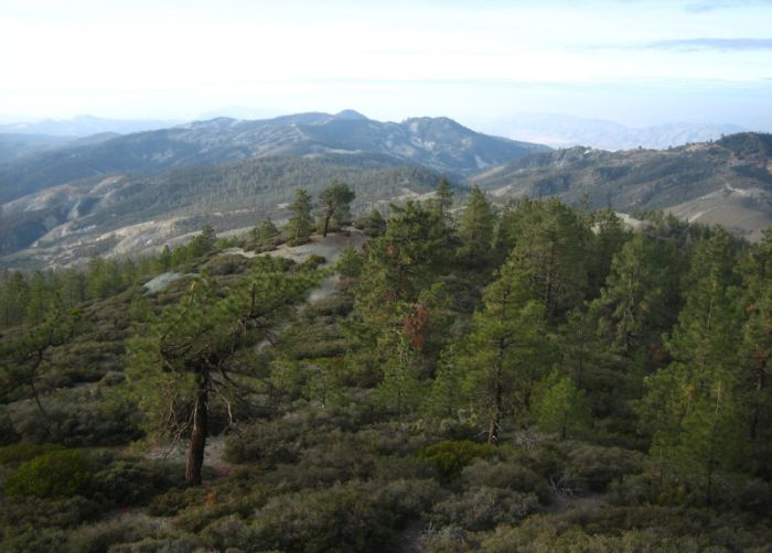 Panoramic view from San Benito Mountain, photo by BLM